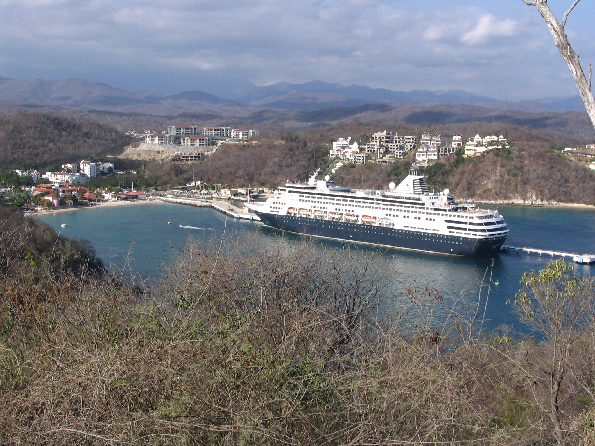 Holland America Line's MS Maasdam moored in Huatulco, Oaxaca, Mexico.